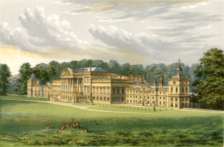 Wentworth Woodhouse Baxter